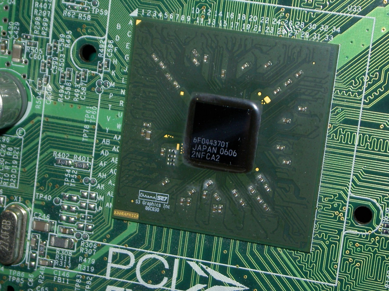 S3 Graphics Chrome S27 GPU